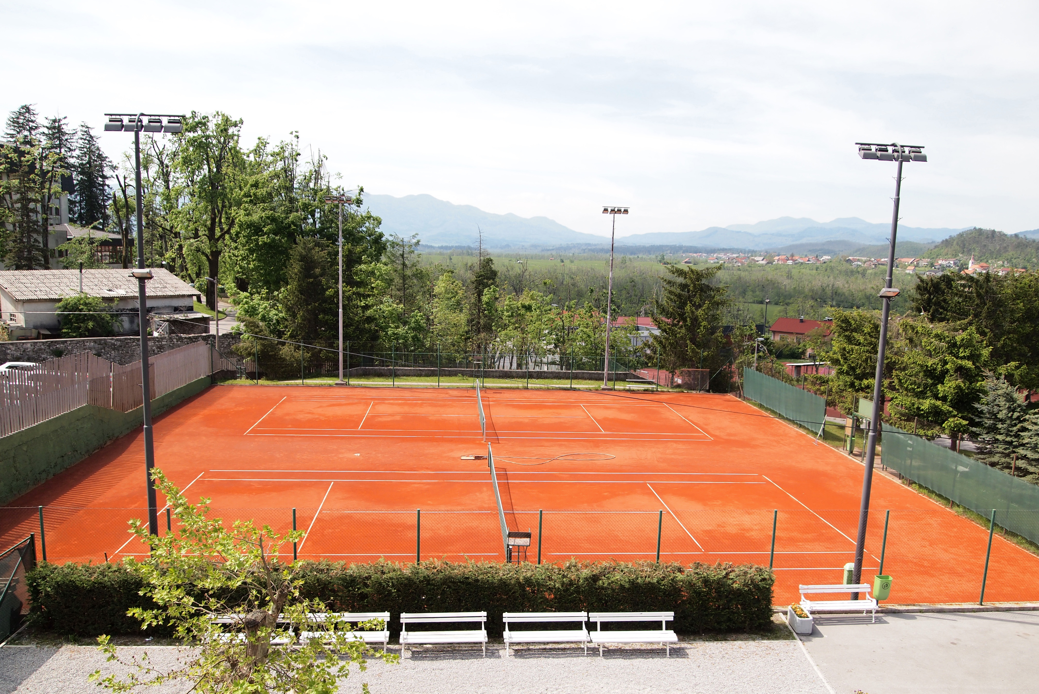 Tennis court in Postojna. This photograph was taken with an Olympus E-PL1